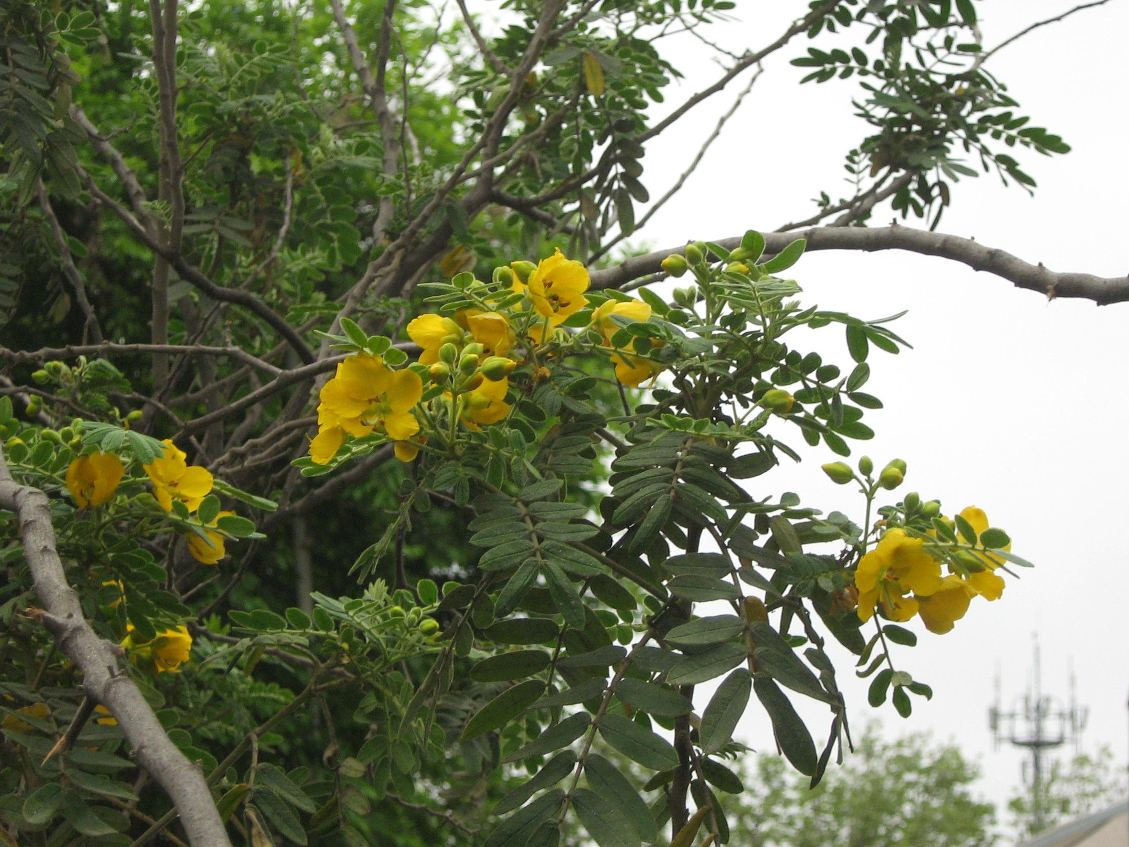 Senna candolleana Irwin et Barneby ex hortus.